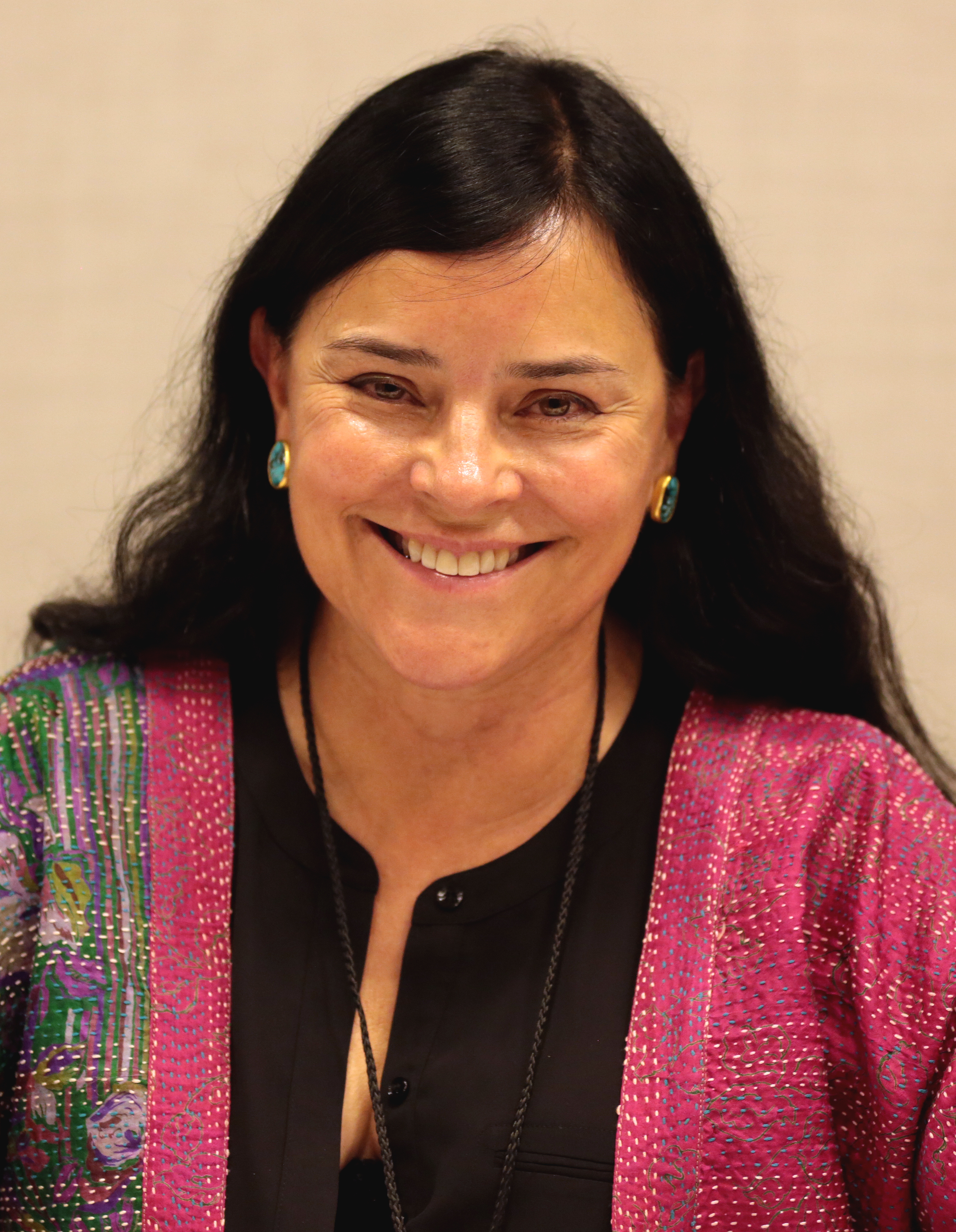 Diana Gabaldon speaking at the 2017 Phoenix Comicon in Phoenix, Arizona.